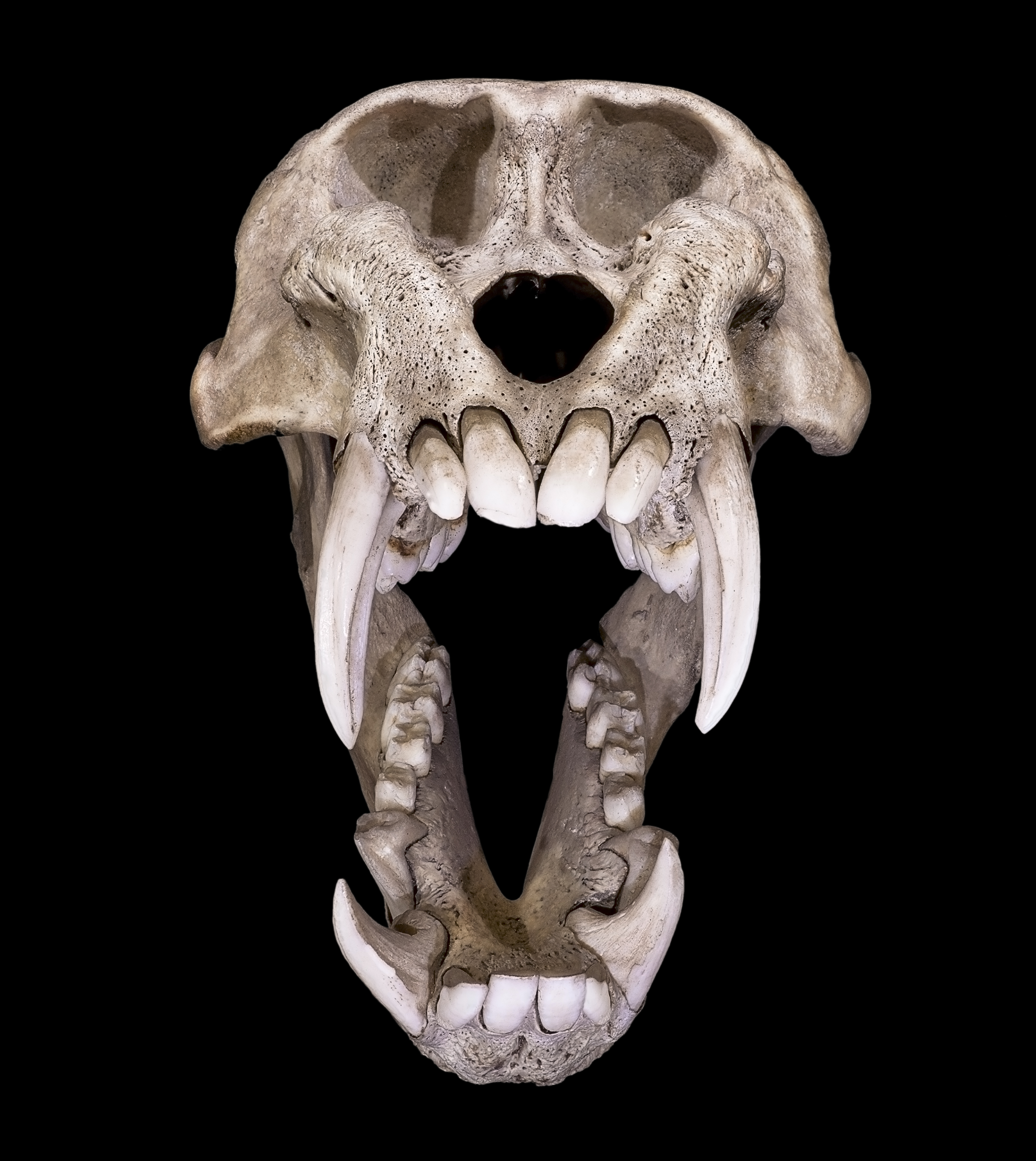 Mandrill Mandrillus sphynx (Linnaeus 1758) - Male - (face View ) Locality: Guinea Size : 20 × 15 × 14cm